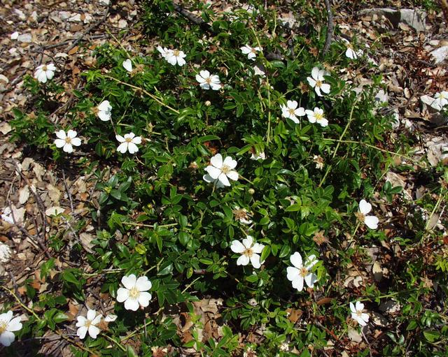 (en) Rosa sempervirens, a photography originating of the internet site The accord of the autor, H. Brisse, is here. (fr) Rosa sempervirens, une photographie issue du site internet L'accord de l'auteur, H. Brisse, se situe ici.